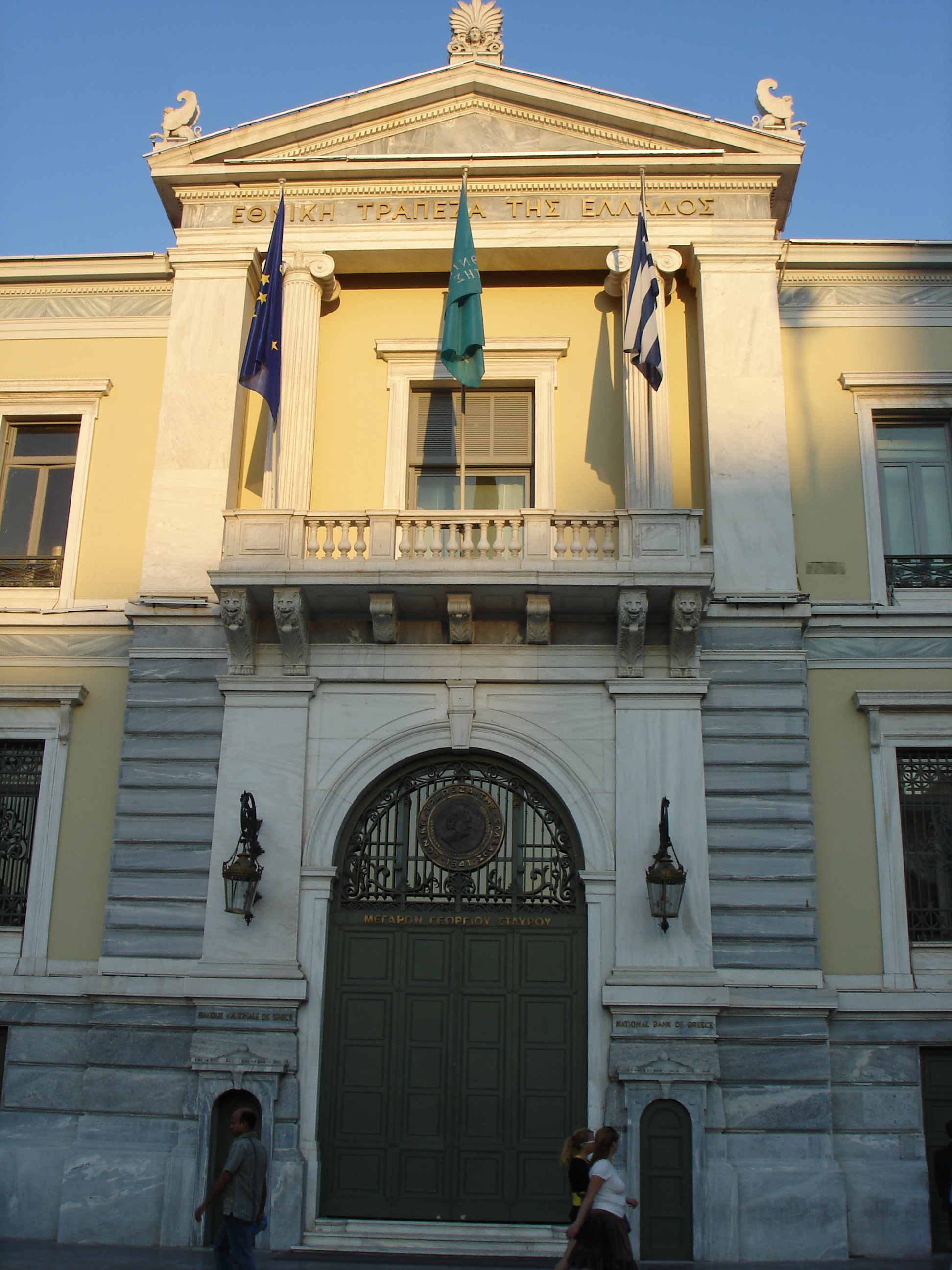 National Bank of Greece old headquarters in Athens, at Eolou Street.